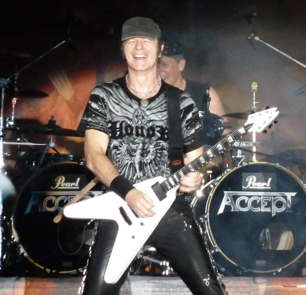 Herman Frank, guitarist of the German heavy metal band Accept performing at Kavarna Rock Fest 2013, Bulgaria.